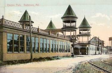 Main entrance to Electric Park, Baltimore (ca. 1907) Asserted to be in public domain - postcard at least 90 years old.